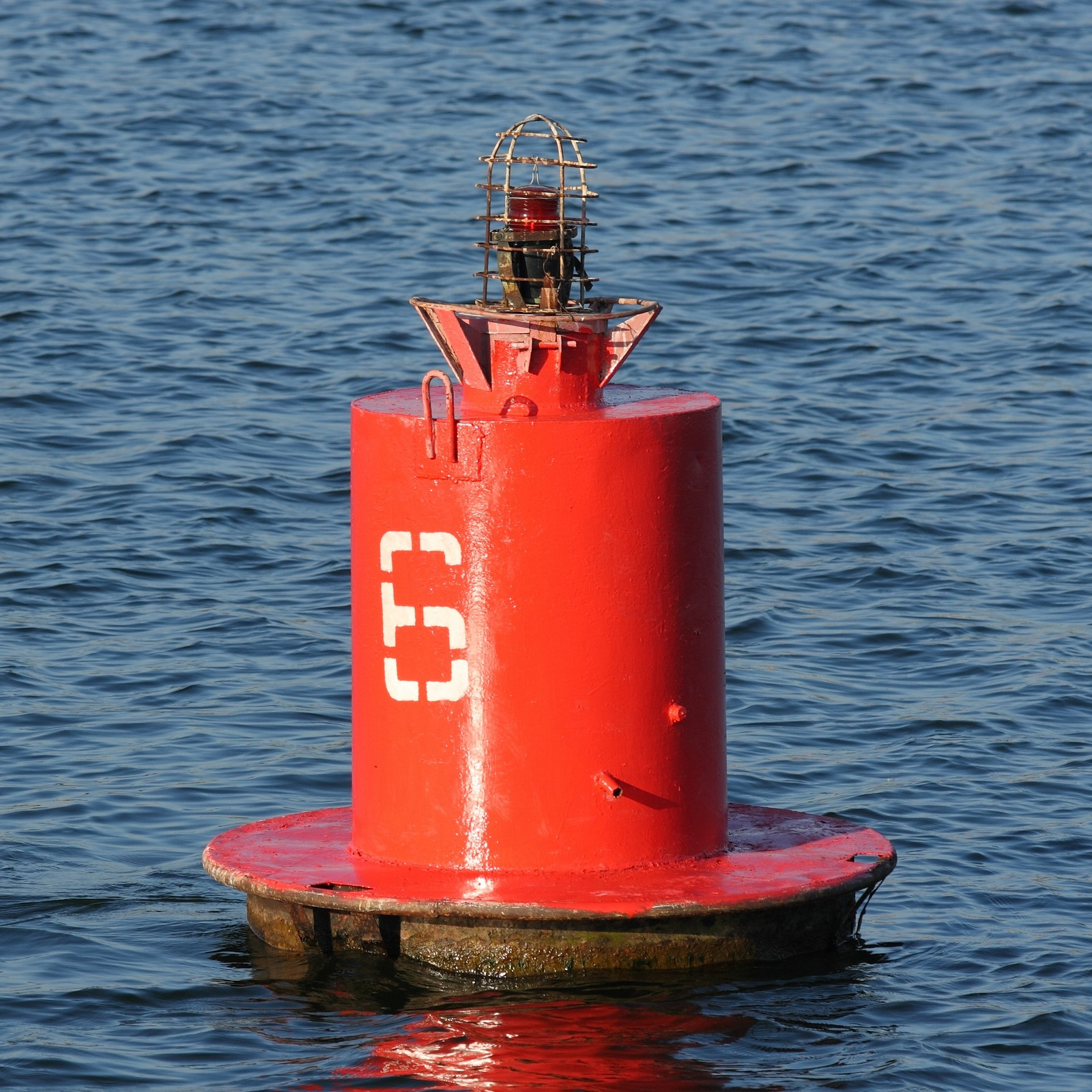 Buoy on Tom river, Tomsk, Russia